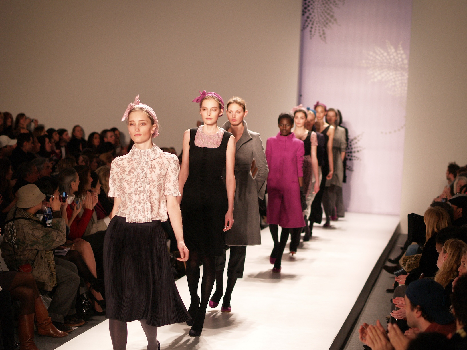 Models at Michon Schur Fall 2007 show, New York Fashion Week. First four models from left to right: Iekeliene Stange, Irina Z., Viktoria Sekrier, Kinée Diouf.